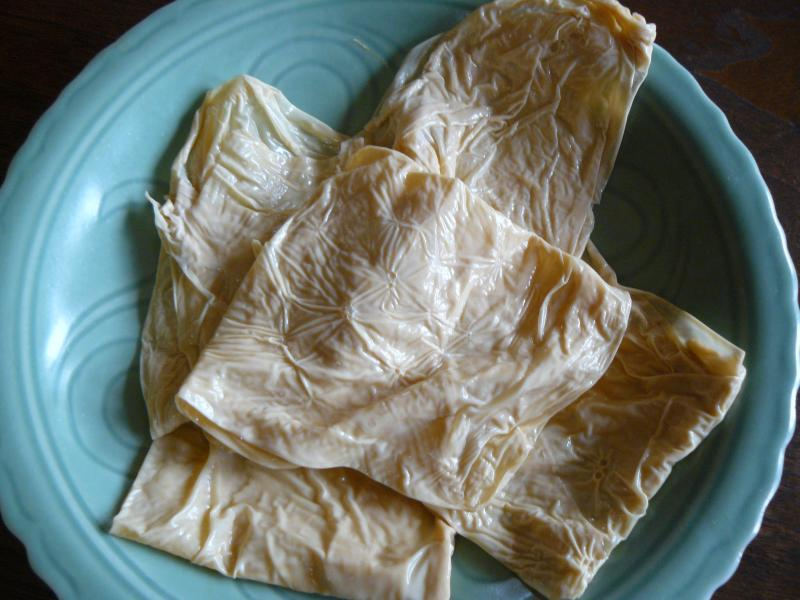 Tofu skin 中文（中国大陆）: 腐皮／腐竹 中文（台灣）: 豆腐皮／腐竹 粵語: 腐竹／腐皮／豆腐皮